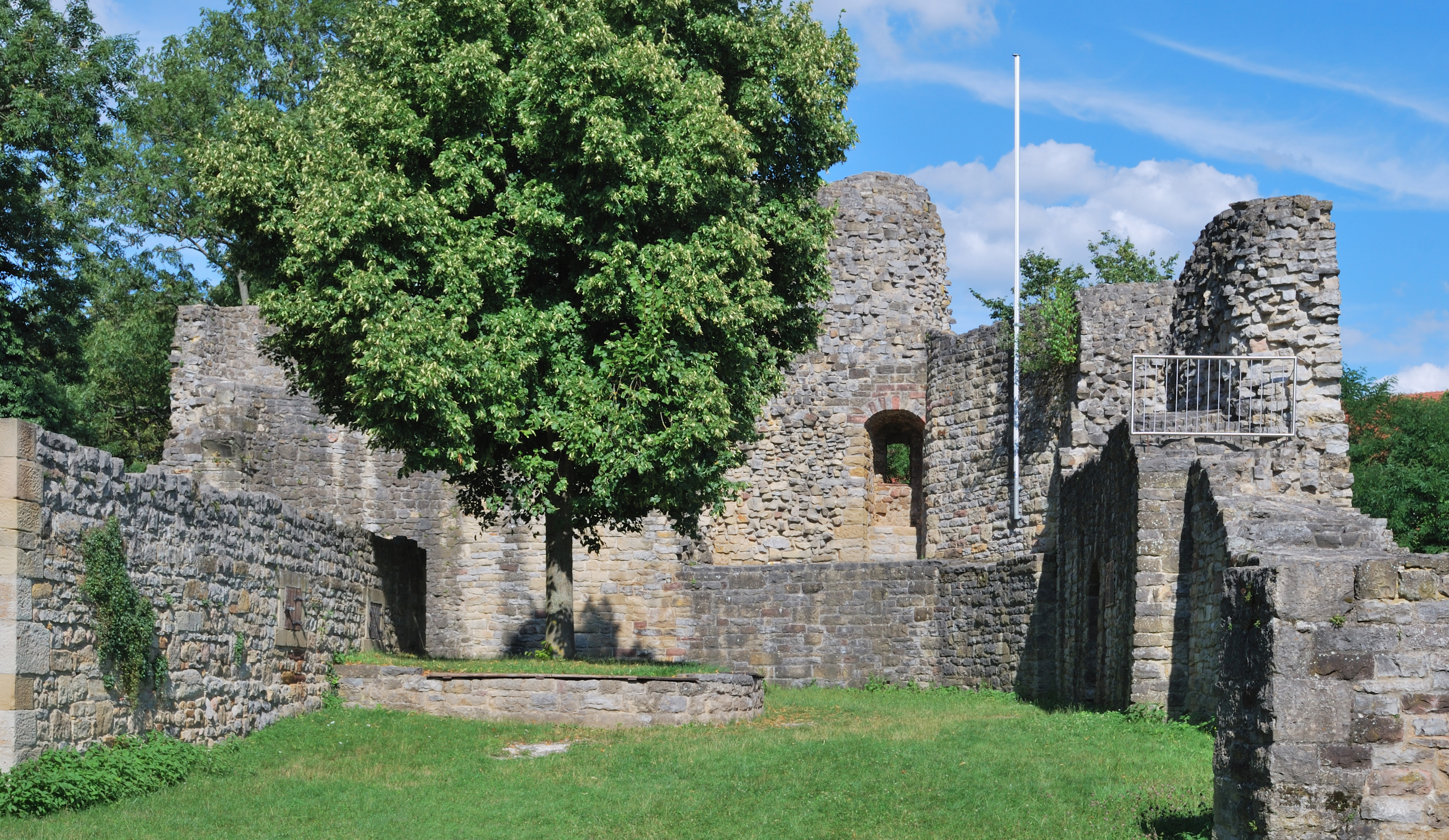 Inner ward of the castle ruin Nippenburg near Schwieberdingen in Southern Germany.